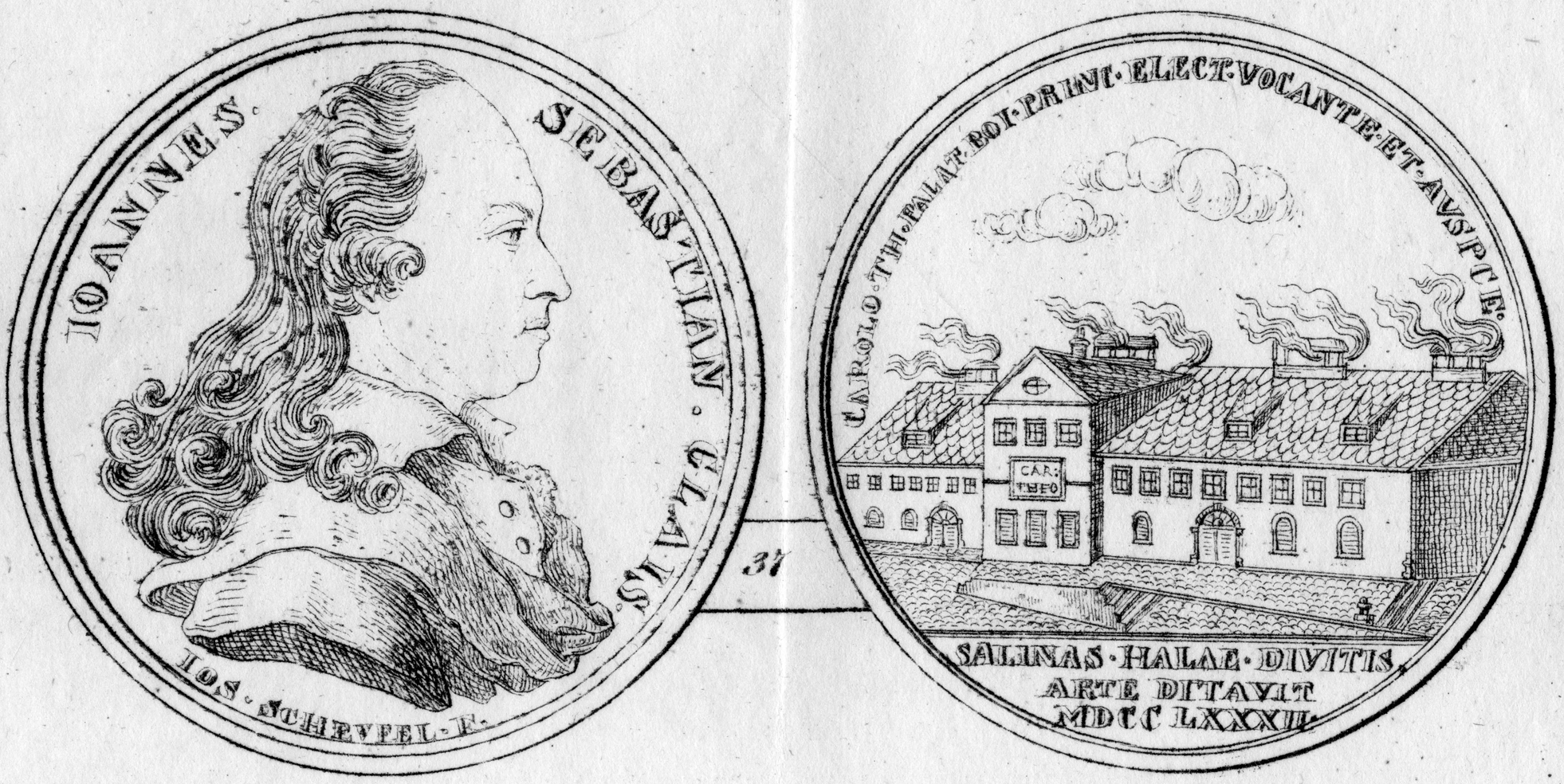 Image shows an illustration of a medal created in 1782 by Joseph Ignaz Scheufel (1733–1812) showing Johann Sebastian von Clais (1742–1809) and an evaporation house (salt production) in Reichenhall, Bavaria.